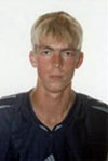 Anton Shendrik, defender of FC IgroService